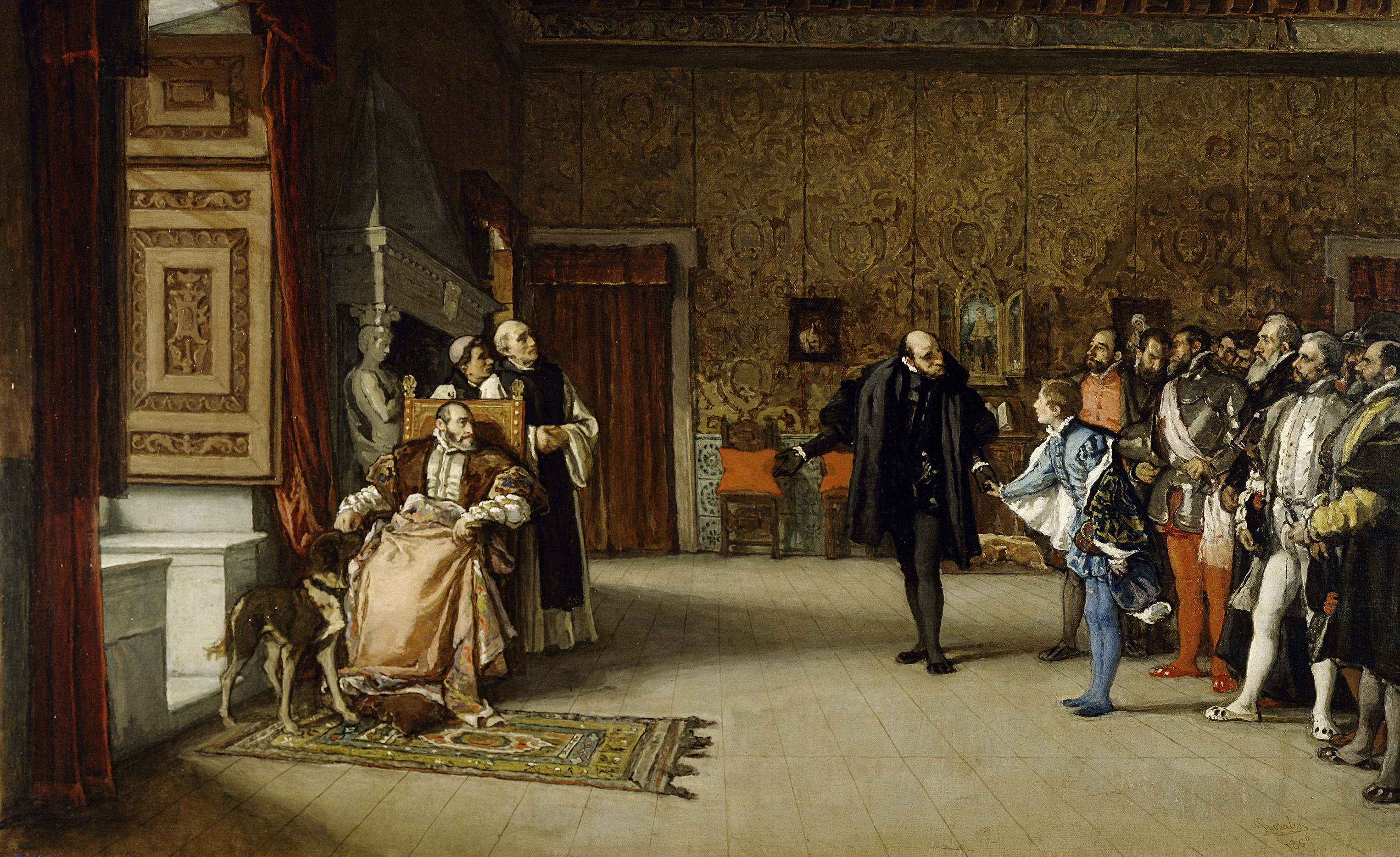 Juan de Austria is presented to his true father, Emperor Charles V by his tutor at the Monastery of Yuste. Until then, the very young Juan knew nothing of his relations.